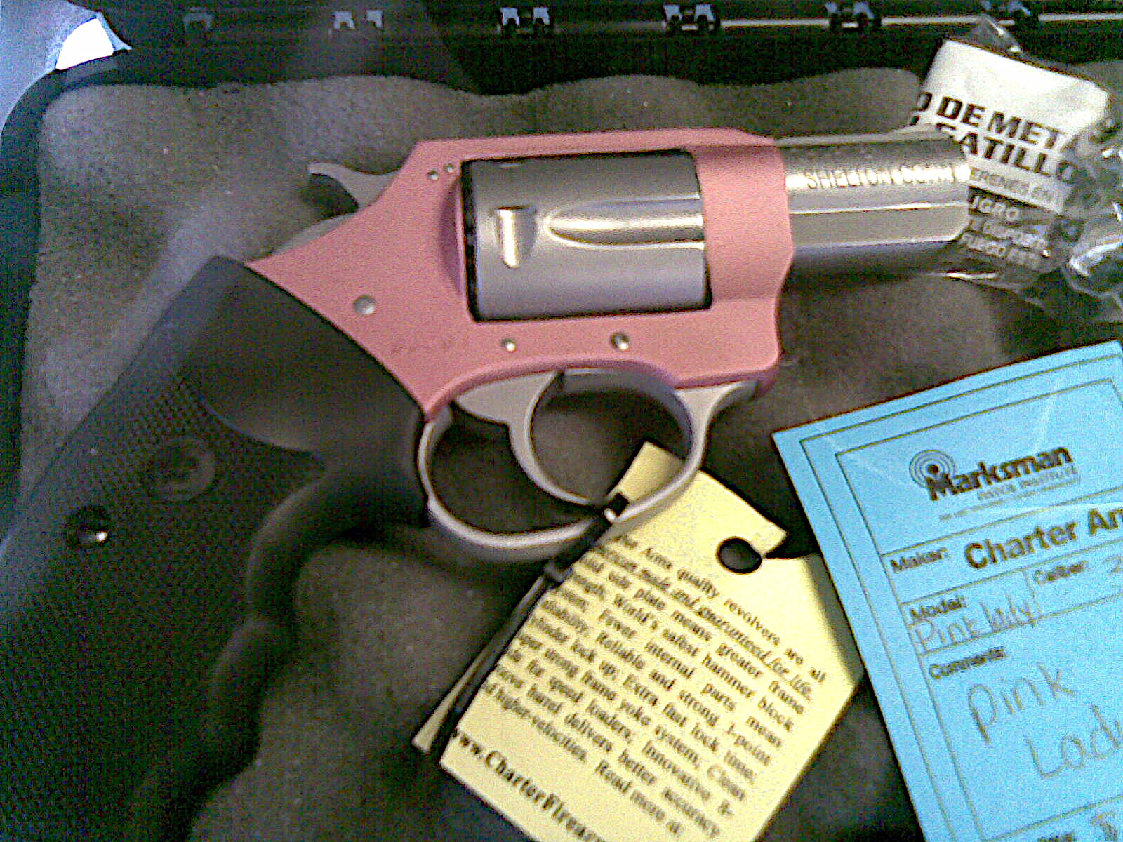 A Charter Arms "Pink Lady" .38 revolver. The pink finish to its aluminum frame was intended to appeal to the female segment of the market, according to the manufacturer's literature.